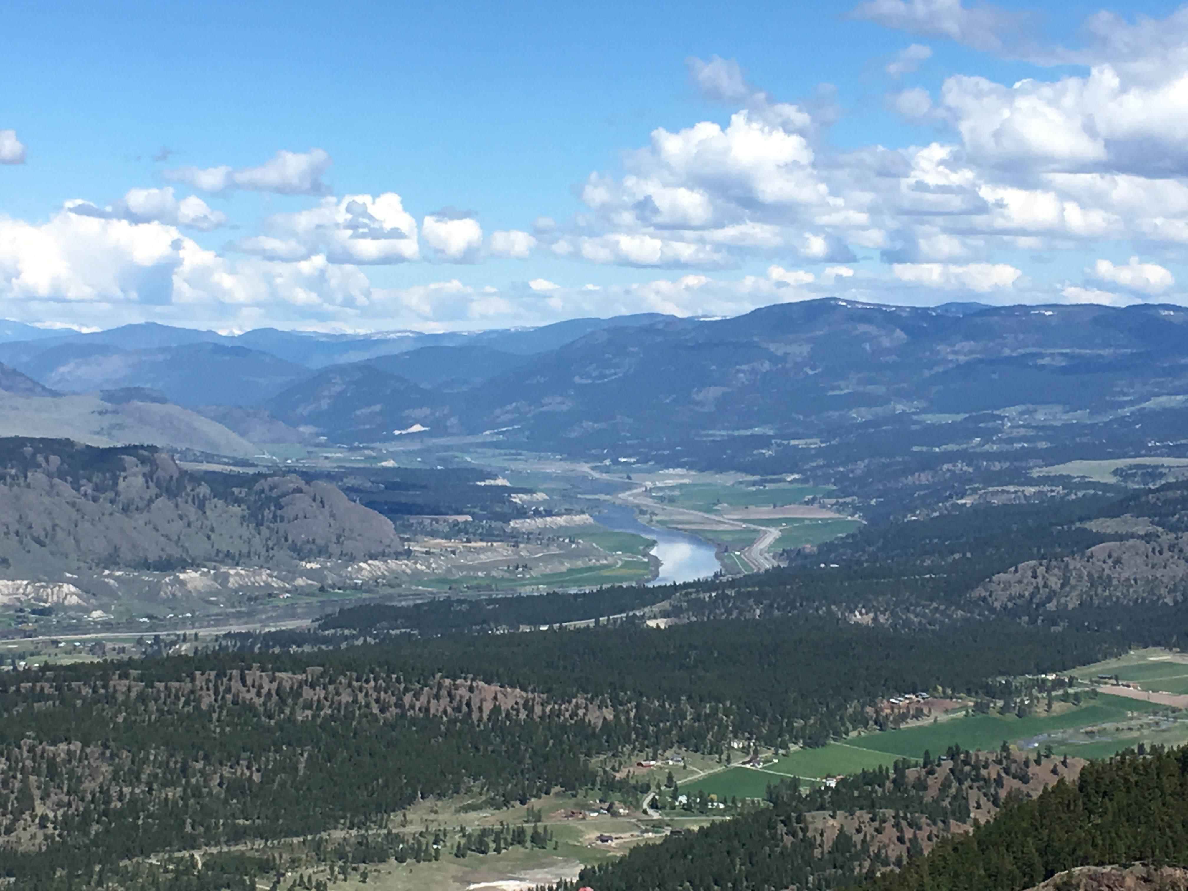 The South Thompson River valley, looking east toward Pritchard. Photo from "the Pinnnacles" in Robbins Range.